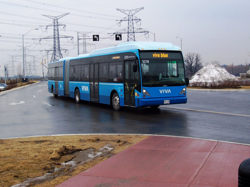 VIVA York Van Hool AG300 bus 5218 at the Richmond Hill terminal